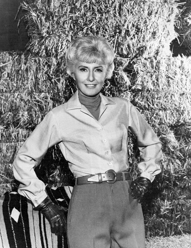 Photo of Barbara Stanwyck as Victoria Barkley from the television Western The Big Valley.